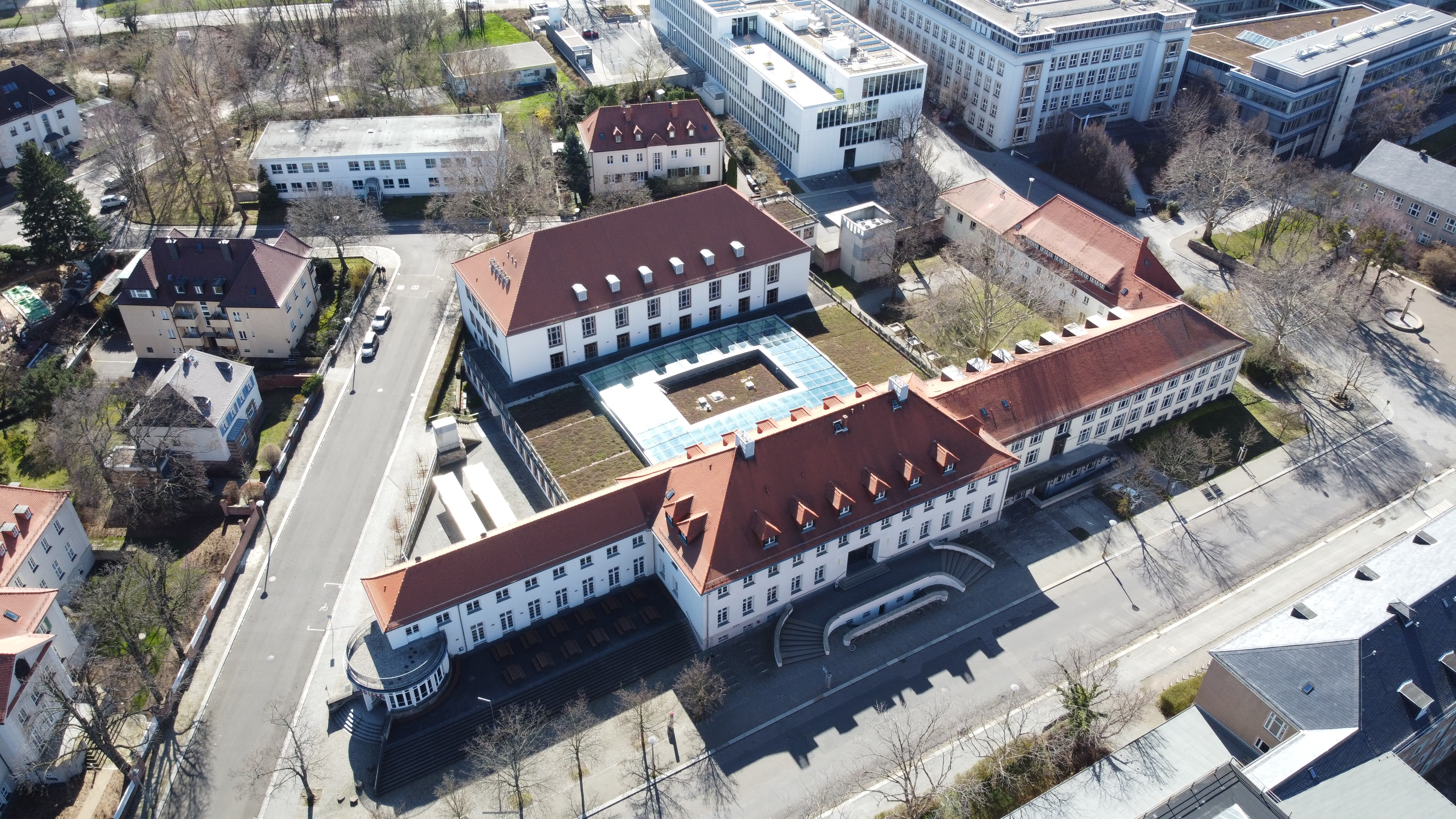 Aerial shot of the old cafeteria of the Dresden University of Technology.